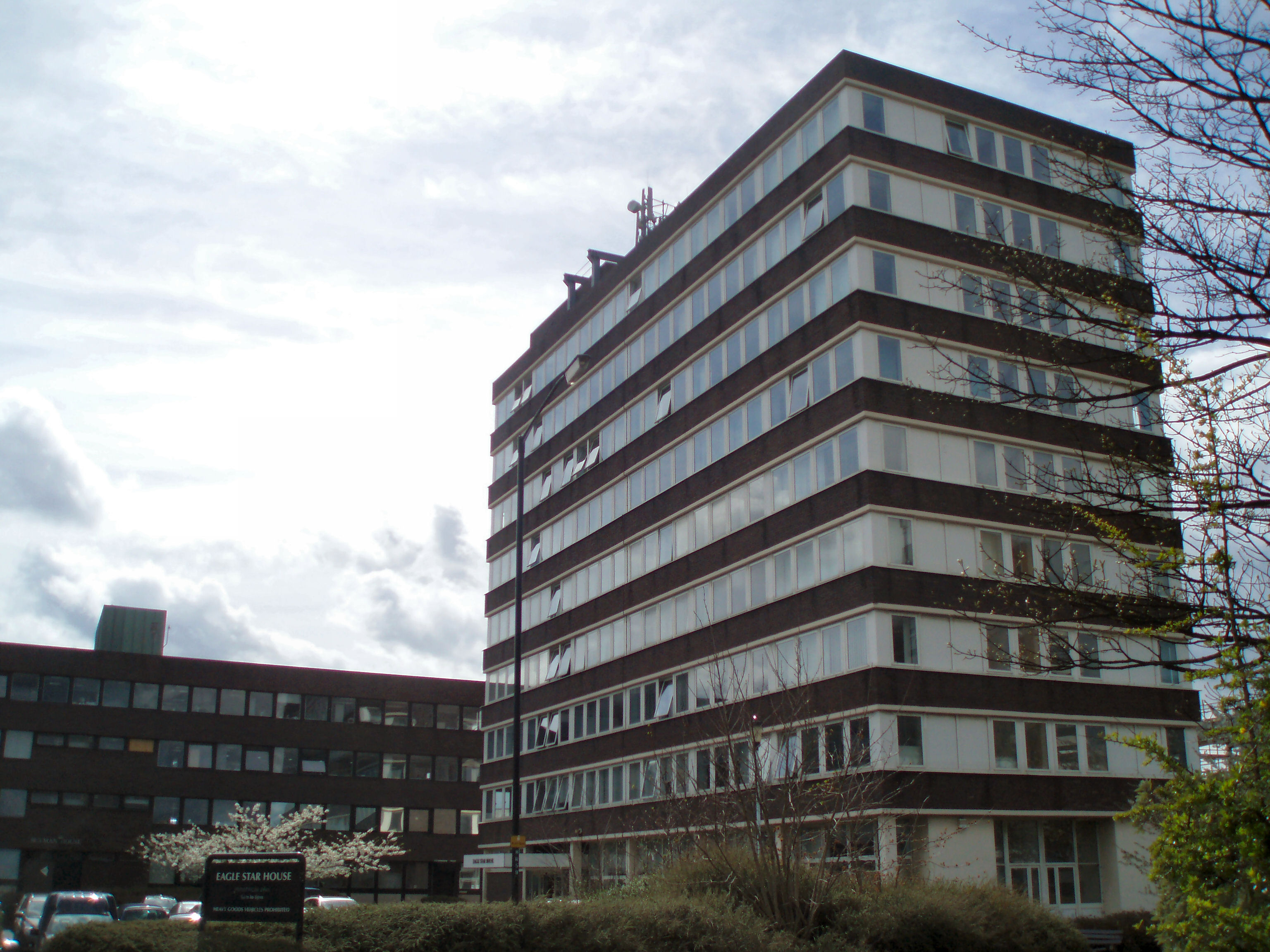 The Eagle Star office building located at Regent Centre, Gosforth, Newcastle Upon Tyne, England, UK